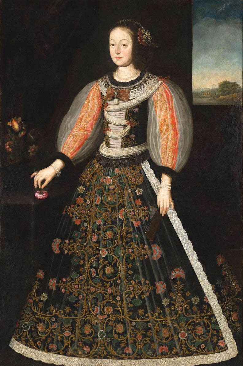 Portrait of Princess Anna Julianna Eszterházy, Wife of Count Ferenc Nádasdy